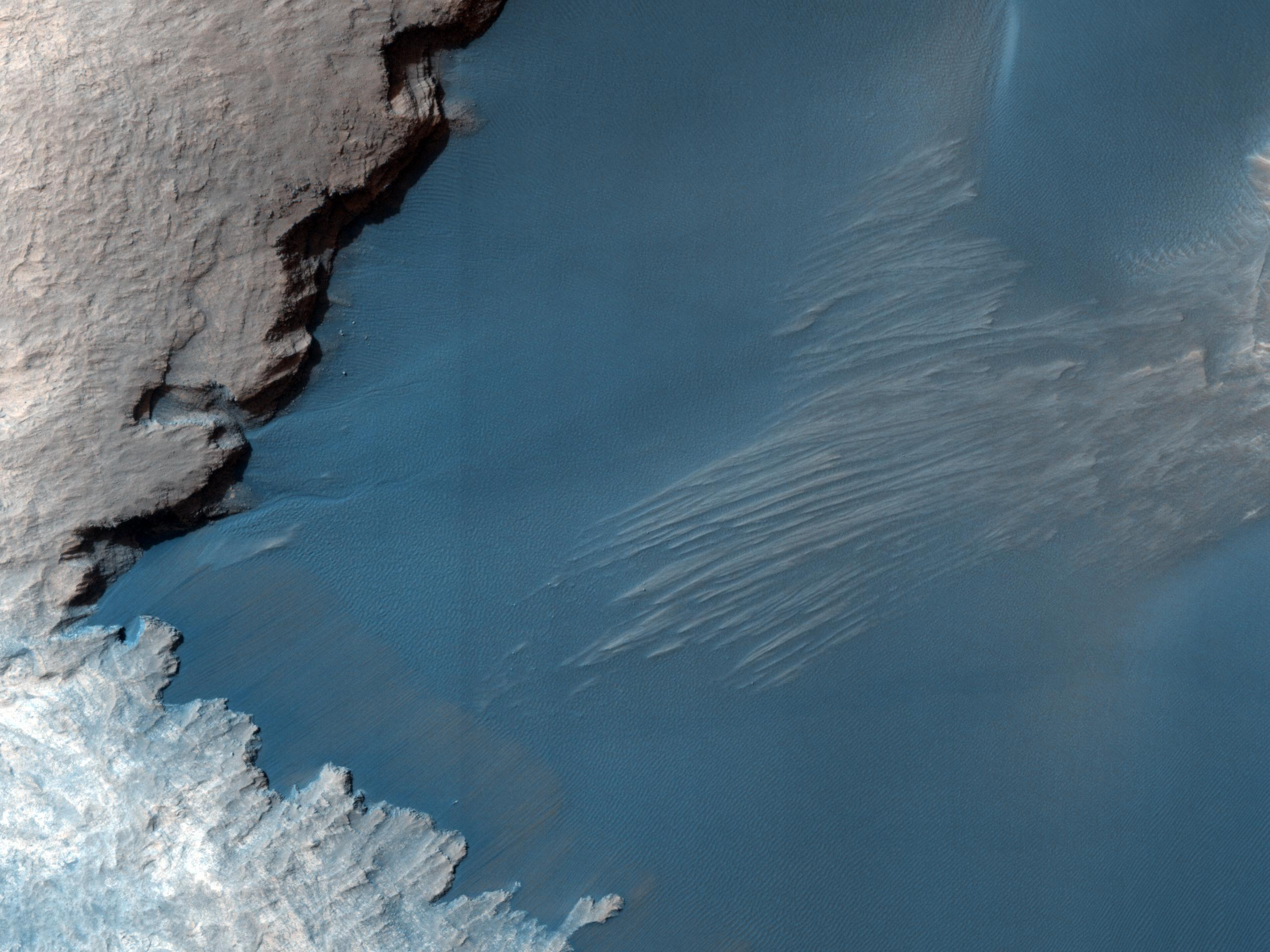 This image shows part of the floor of Rabe Crater, a large (108 kilometre diameter) impact crater in the Southern highlands of Mars. Dark dunes—accumulations of wind blown sand—cover part of crater's floor, and contrast with the surrounding bright-coloured outcrops. The extreme close-up view reveals a thumbprint-like texture of smaller ridges and troughs covering the surfaces of the larger dunes. These smaller ripples are also formed and shaped by blowing wind in the thin atmosphere of Mars. One puzzling question is why the dunes are dark compared with the relative bright layered material contained within the crater. The probable answer is that the source of the dark sand is not local to this crater; rather, this topographic depression has acted as a sand trap that has collected material being transported by winds blowing across the plains outside the crater. Local Mars time: 2:22 PM. Latitude (centered): -43.5°. Longitude (East): 35.0°. Range to target site: 253.3 km. Original image scale range: 25.3 cm/pixel (with 1 x 1 binning) so objects ~76 cm across are resolved. Map projected scale: 25 cm/pixel and north is up. Map projection: EQUIRECTANGULAR. Emission angle: 1.9°. Phase angle: 43.3°. Solar incidence angle: 42°, with the Sun about 48° above the horizon . Solar longitude: 322.6°, northern winter.